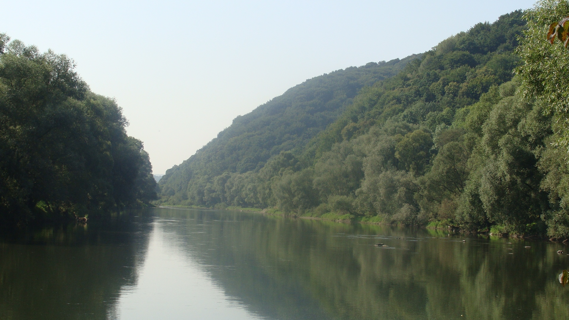 San River Gorge in Międzybrodzie near Sanok. 2008